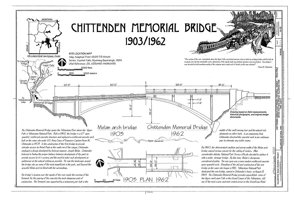 Artist rendering of Chittenden Memorial Bridge and Chittenden Bridge, Yellowstone National Park